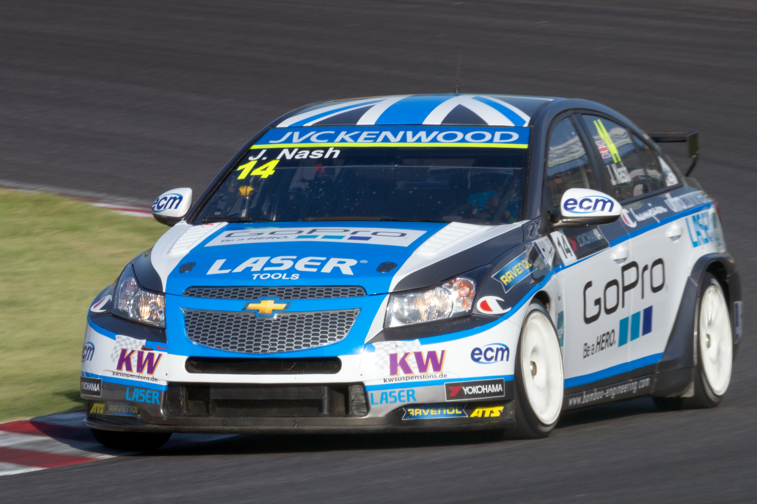 World Touring Car Championship 2013 Race of Japan: James Nash (bamboo-engineering)